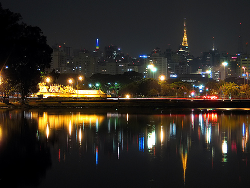 Ibirapuera Park's pond, in São Paulo, Brazil.